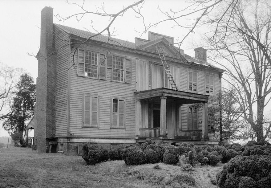 The Oaks, Ricks Lane, Leighton (Colbert County, Alabama) cropped This file comes from the Historic American Buildings Survey (HABS), Historic American Engineering Record (HAER) or Historic American Landscapes Survey (HALS). These are programs of the National Park Service established for the purpose of documenting historic places. Records consist of measured drawings, archival photographs, and written reports. When reusing please credit: Library of Congress, Prints & Photographs Division, ALA,17-LEIT.V,1-1 This tag does not indicate the copyright status of the attached work. A normal copyright tag is still required. See Commons:Licensing for more information. English | +/− This work is in the public domain in the United States because it is a work prepared by an officer or employee of the United States Government as part of that person’s official duties under the terms of Title 17, Chapter 1, Section 105 of the US Code. See Copyright. Note: This only applies to original works of the Federal Government and not to the work of any individual U.S. state, territory, commonwealth, county, municipality, or any other subdivision. This template also does not apply to postage stamp designs published by the United States Postal Service since 1978. (See § 313.6(C)(1) of Compendium of U.S. Copyright Office Practices). It also does not apply to certain US coins; see The US Mint Terms of Use. This file has been identified as being free of known restrictions under copyright law, including all related and neighboring rights. Object location34° 40′ 27″ N, 87° 35′ 36″ W